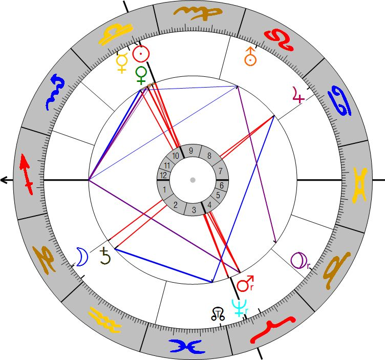 Manuel II Palaiologos: Horoscope of proclamation/coronation as Emporer